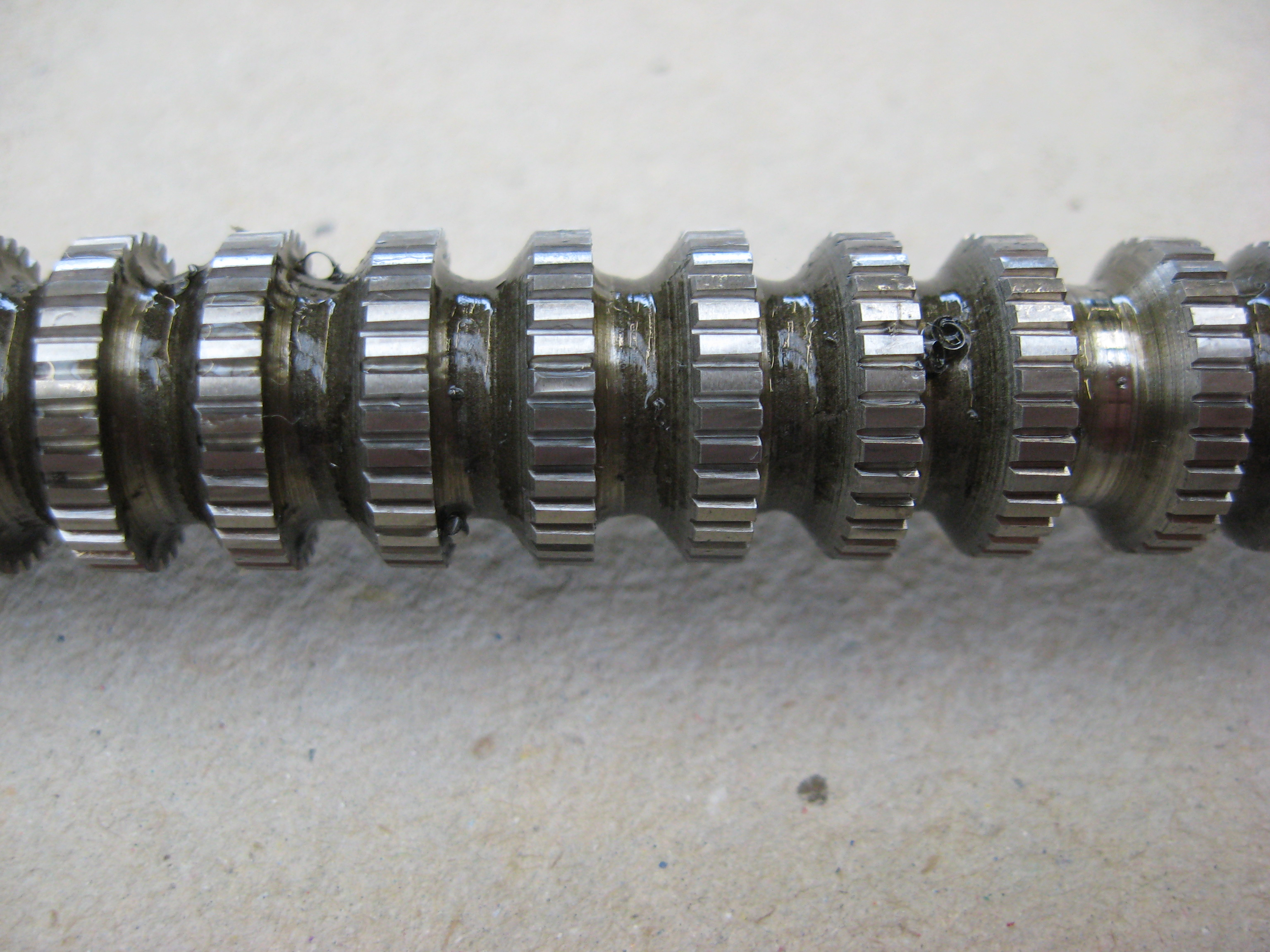 The middle semi-finishing teeth of a broach.